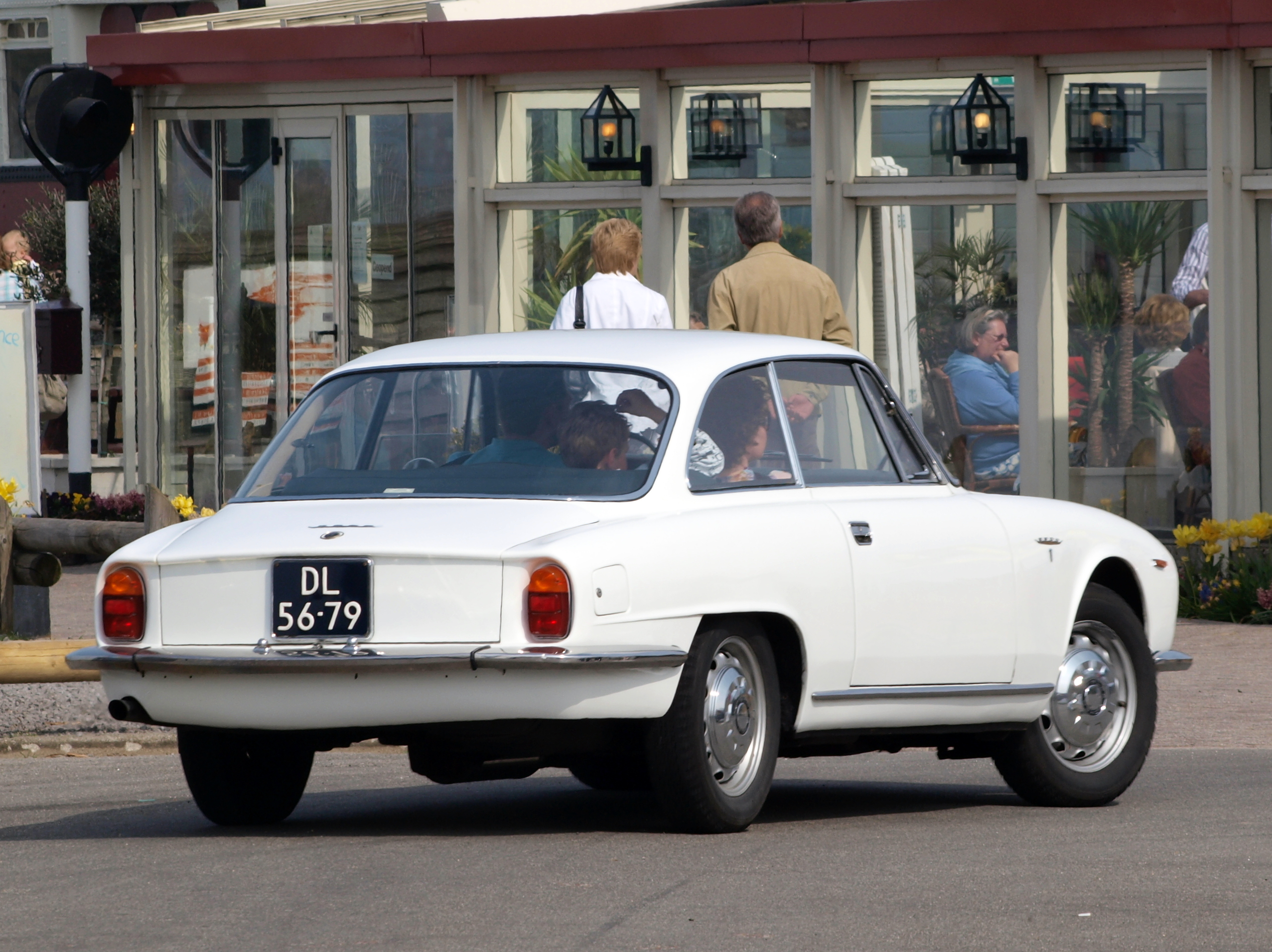 Cars and motorcycles photographed at the Voorschotense Oldtimer Vereniging Show, Valkenburgse meer, The Netherlands.